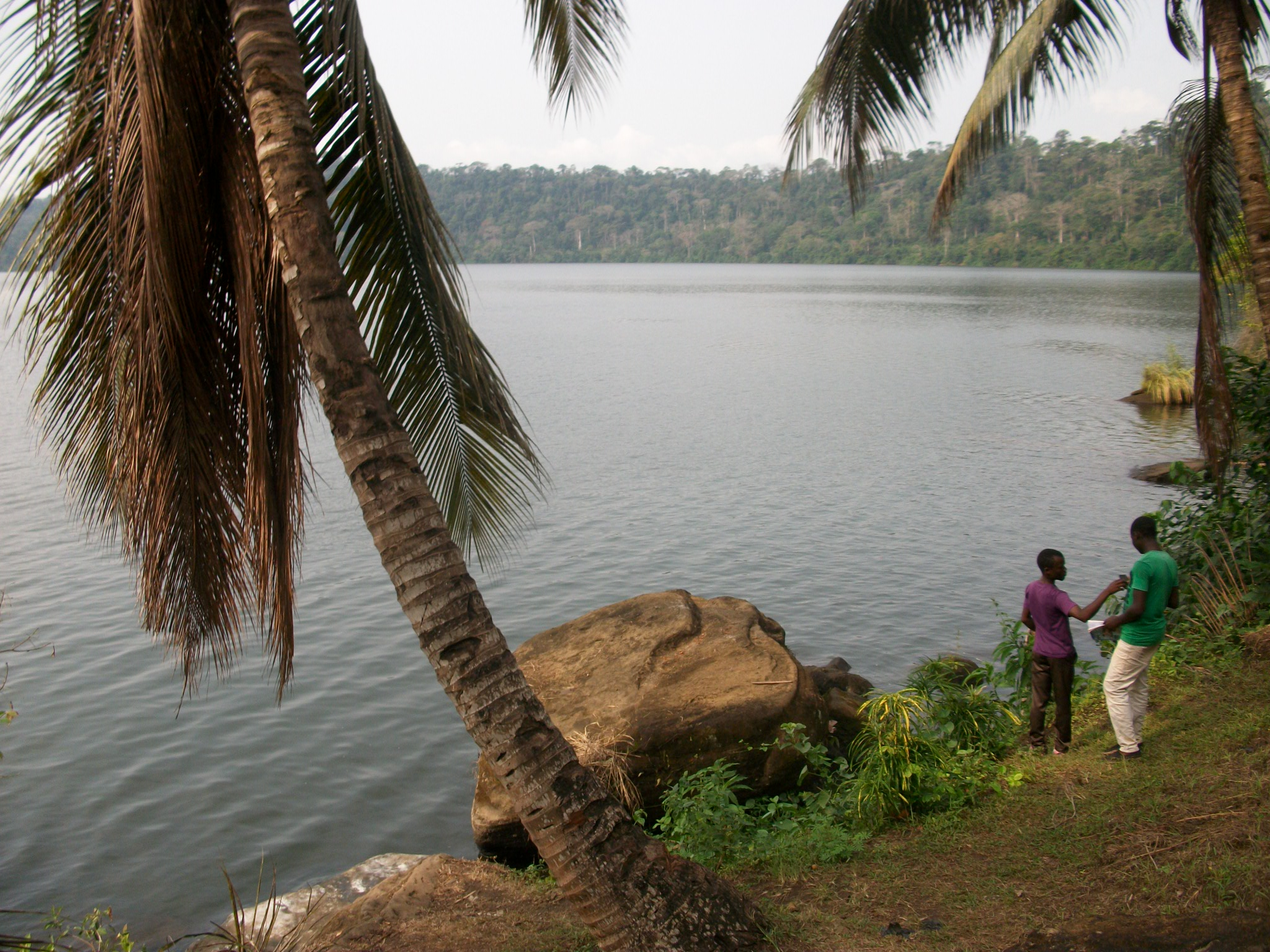 The beautiful crater lake